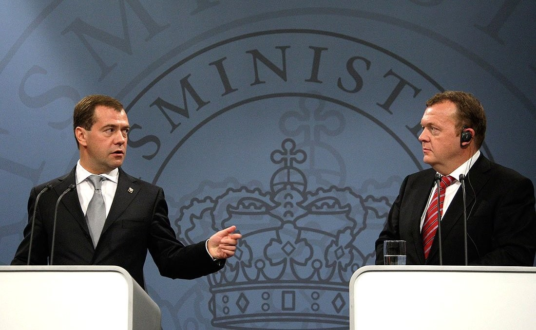 News conference following Russian-Danish talks. With Danish Prime Minister Lars Lokke Rasmussen.